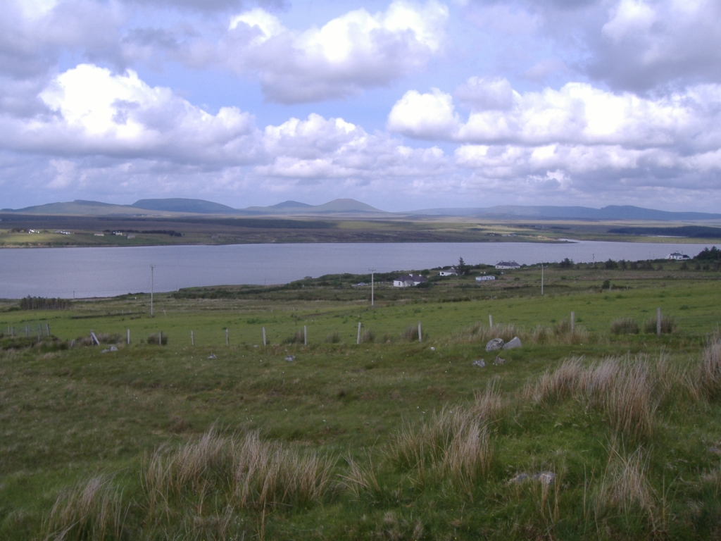 View over Sruwaddacon Bay, Kilcommon, Erris from townland of Aughoose.